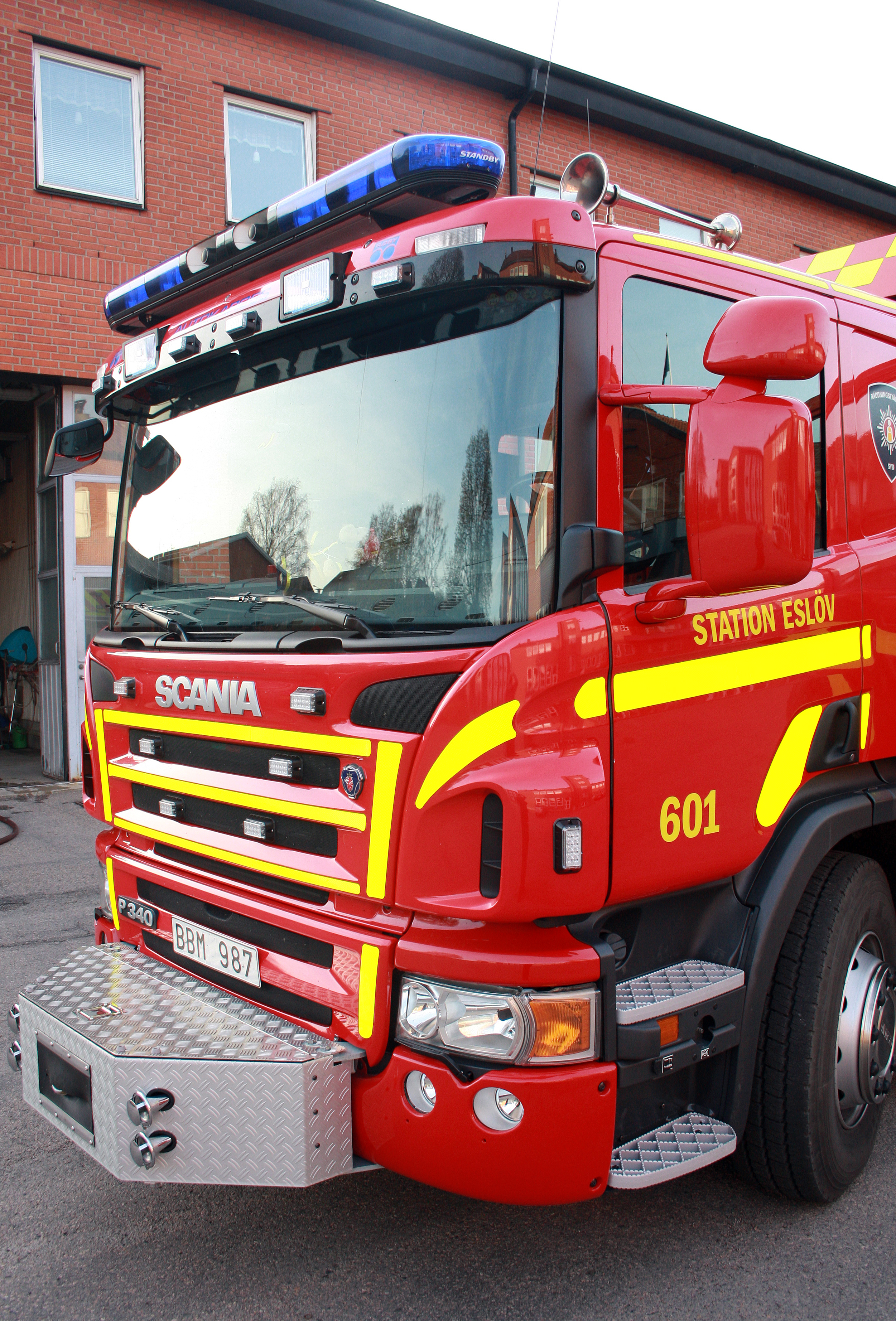 Fire engine at the Eslöv fire station in Sweden. Scania P340 truck.